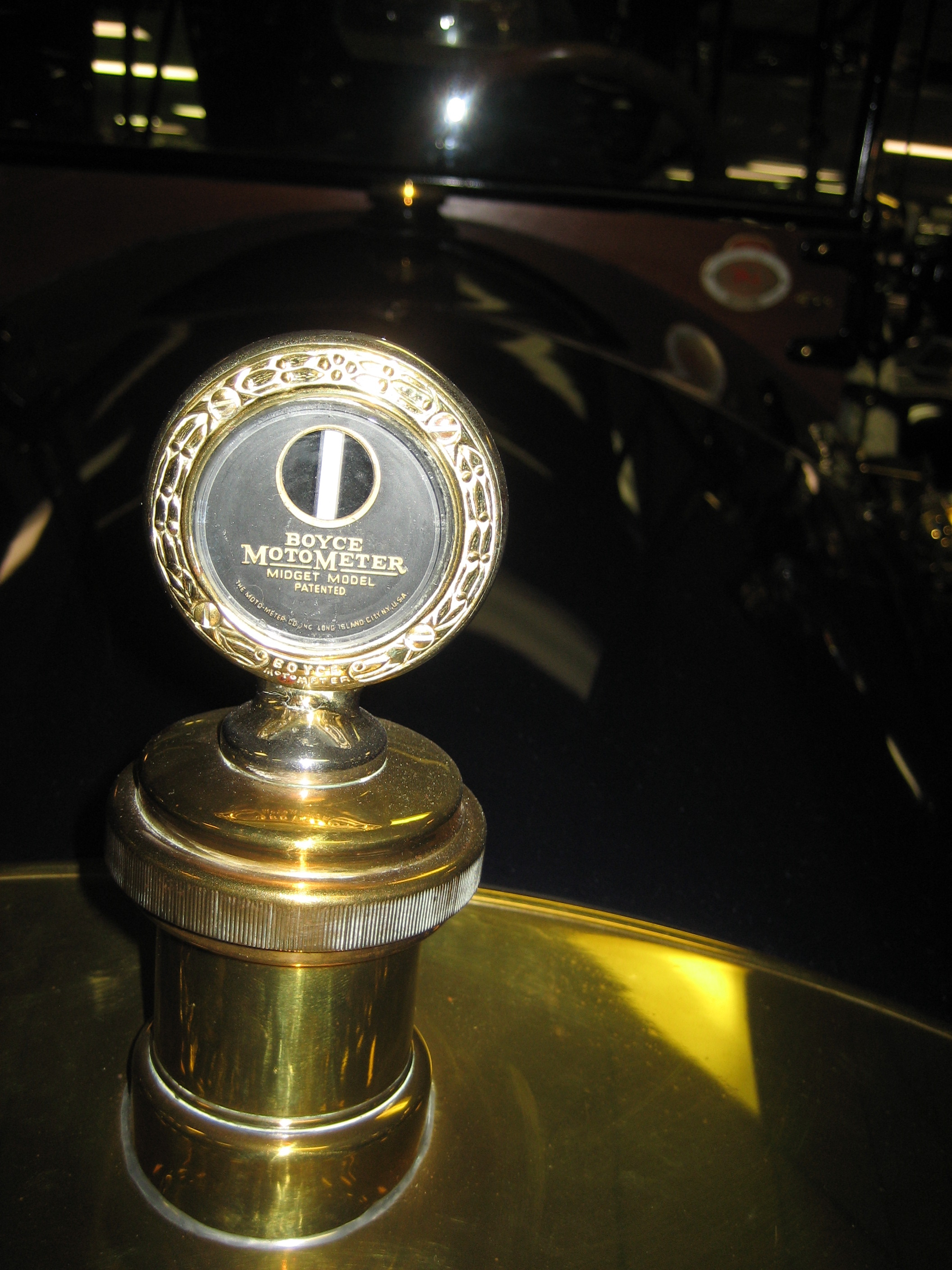 1913 Car-Nation Tourer on display at Tallahassee Automobile Museum. Detail showing "Boyce MotoMeter" radiator cap.